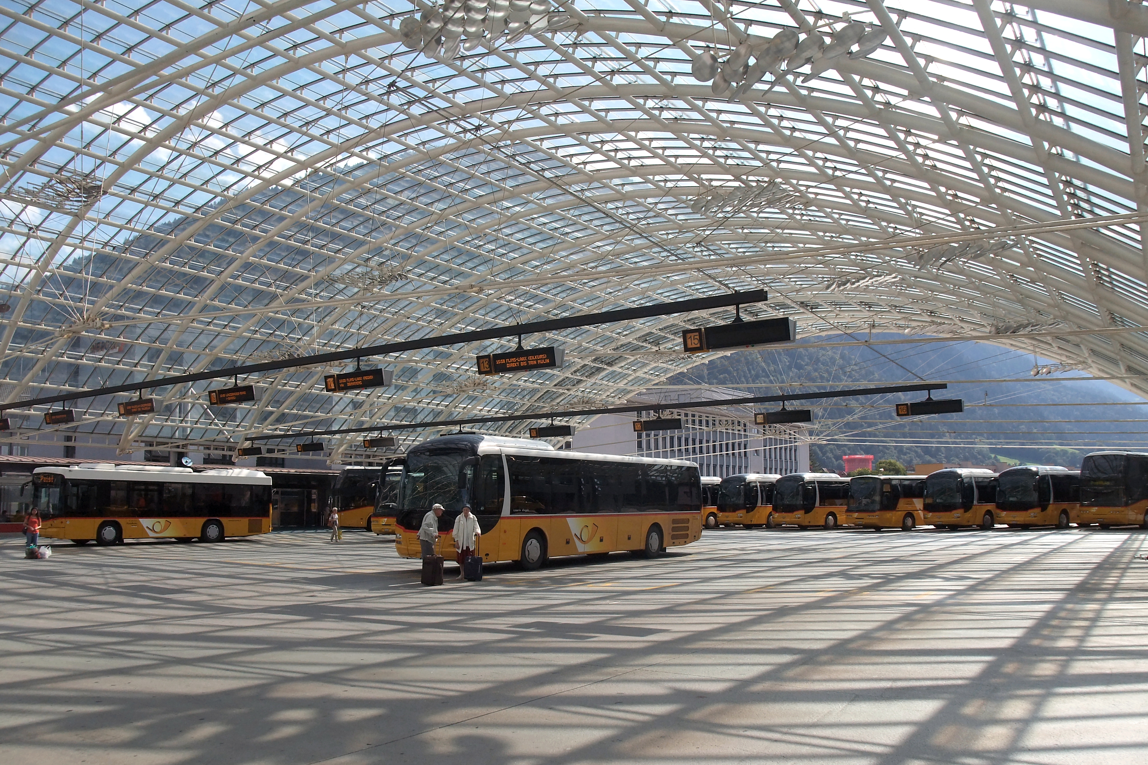 The central postal bus station on the upper deck above the railway station. When the sun shines, a fascinating play of light and shadow. The departure of the buses is controlled by green and red light signals below the display panels. Chur, Switzerland, Sep 2, 2011.